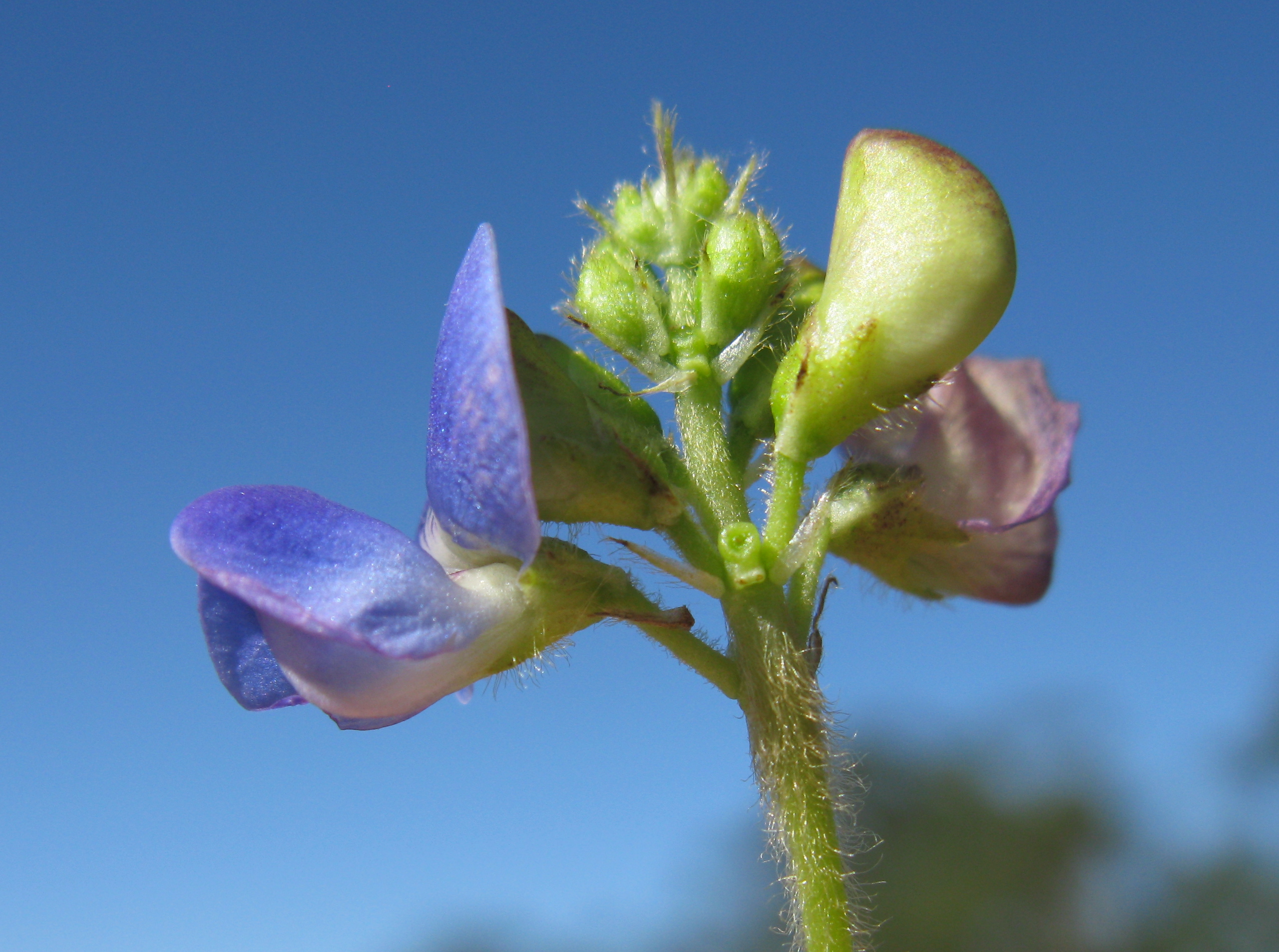 Flowerheads are racemes of 2-5, blue, 5-9 mm long, pea-like flowers in the leaf axils. Pods are straight sided, narrow, flattened and 1-3 cm long. Flowering is in summer and autumn.